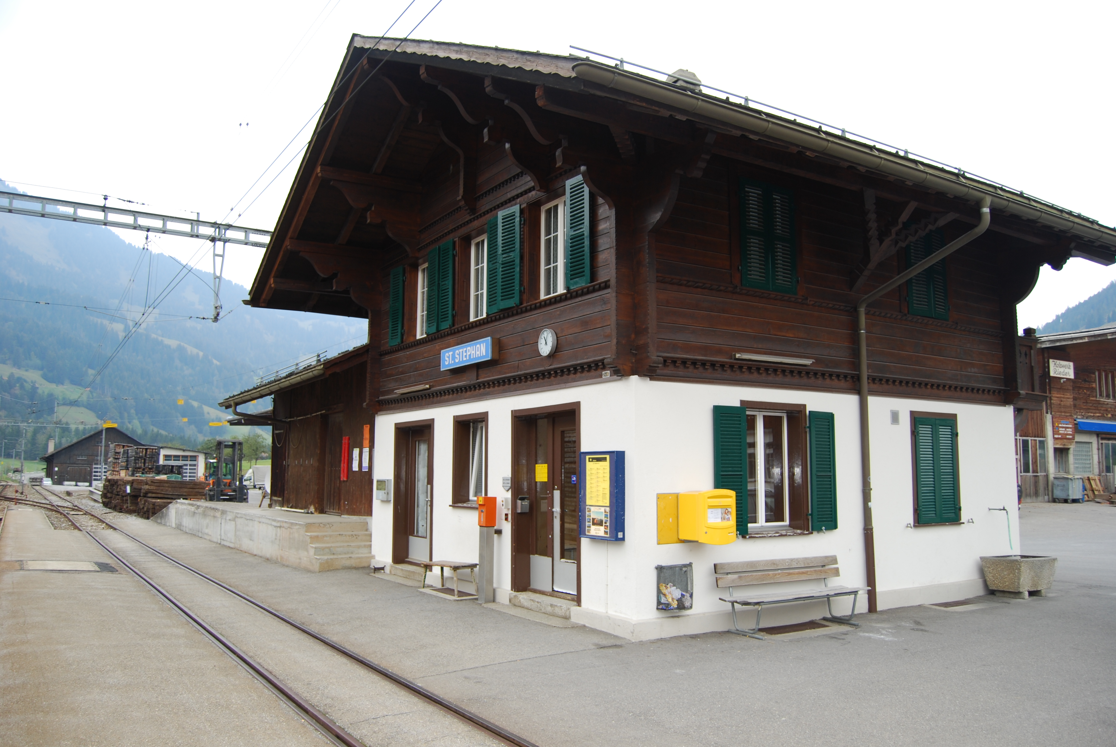 Train station of St. Stephan, canton of Bern, SwitzerlandEsperanto: Stacidomo de Sankt-Stefano, Kantono Berno, Svislando